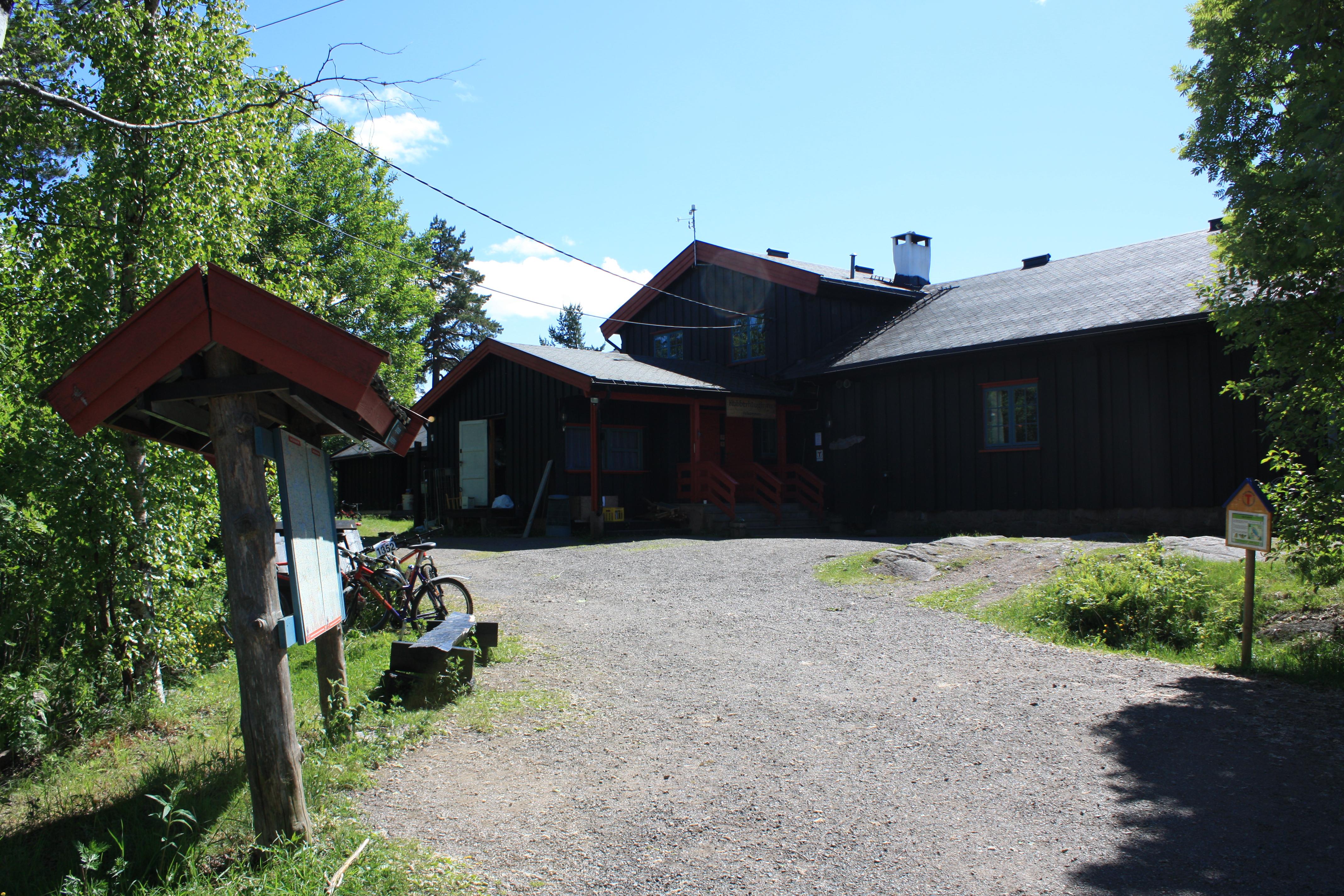 Kobberhaughytta